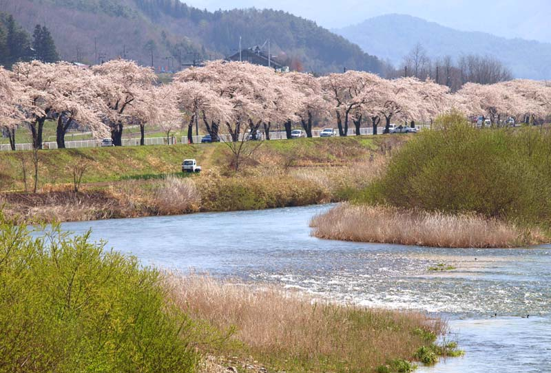 The Sarugaishi River in Tono in spring lined with flowering cherry trees.